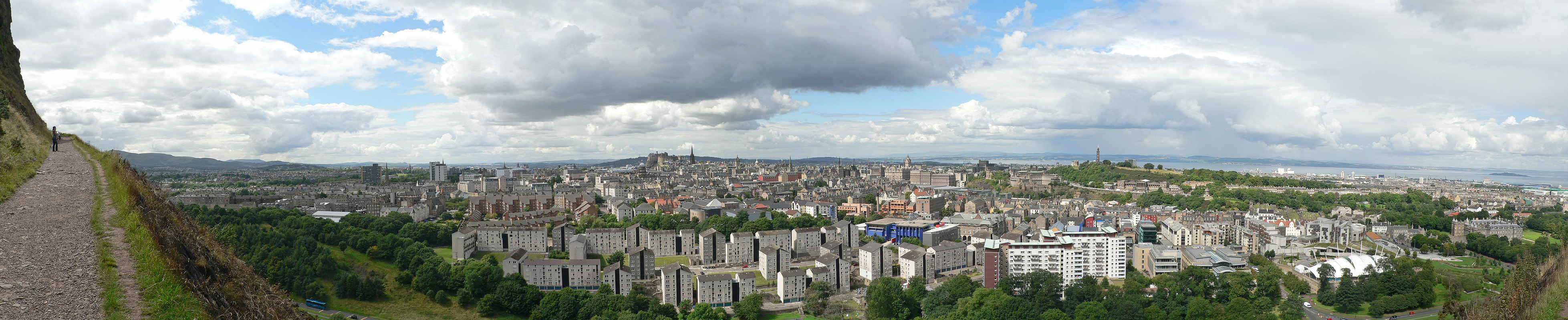 Edinburgh. Panorama from the Salisbury Crags.